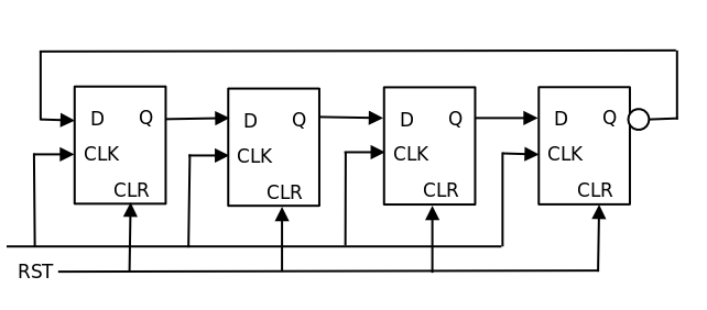 An RTL circuit diagram of a 4-bit Johnson counter using DFFs. Circuit includes asynchronous reset.(Labeled in version 2) Line negation indicated with circle.